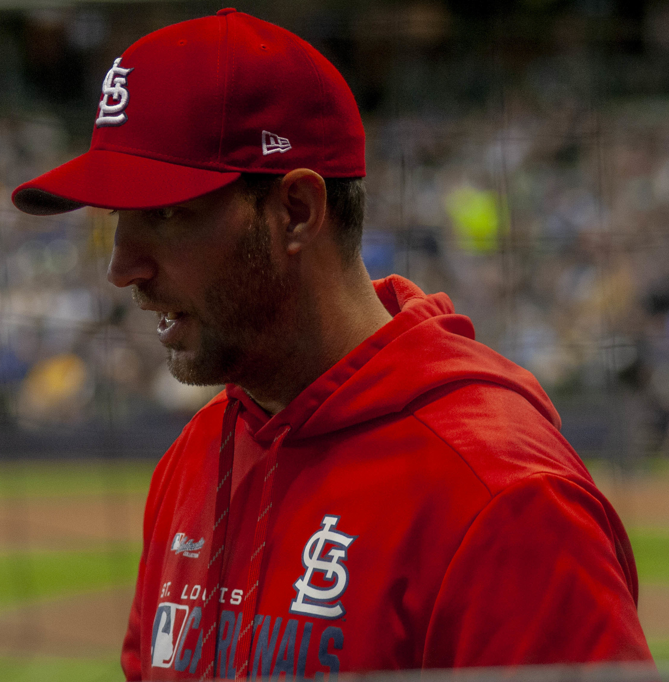 Adam Wainwright